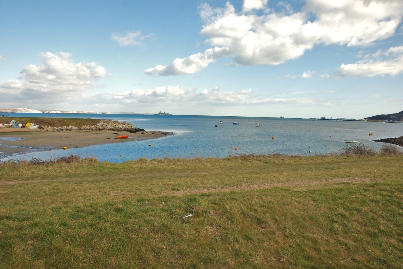 Portland Harbour: Venue for 2012 Olympic sailing events Weymouth and Portland will host all the 2012 Sailing Events. The area is a world class sailing destination. These sailing waters are credited by the Royal Yachting Association as the best in Northern Europe.